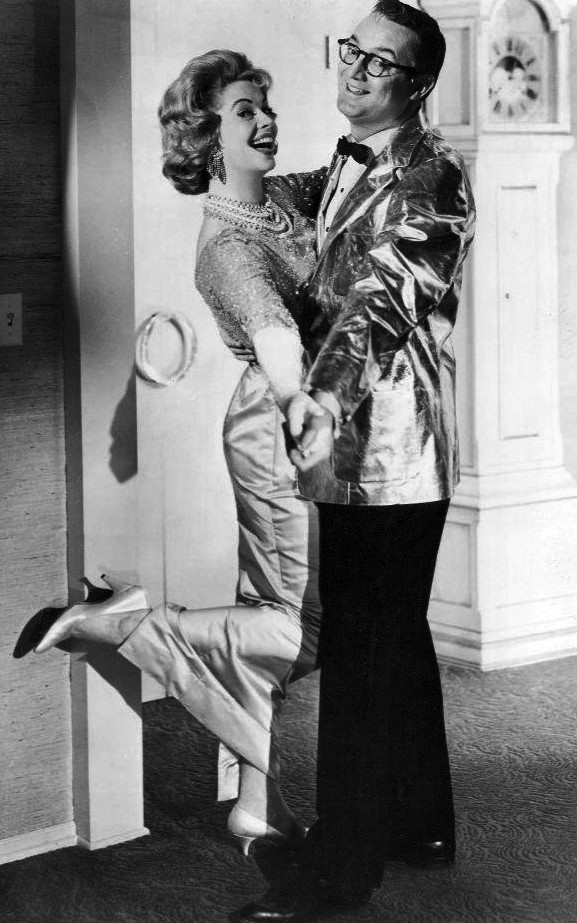 Publicity photo of Steve Allen and Jayne Meadows who were starring in the play The Fourposter at the Edgewater Beach Playhouse in Chicago. The Edgewater Beach Hotel (now razed) offered theater productions in the late 1950s and early 1960s.